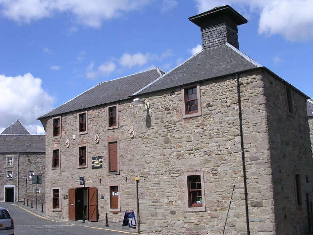 Lower City Mills, Perth. The Lower City Mills which today house Perth's Tourist Information Centre were once grain mills using water power from a lade dug from the River Almond, a tributary of the Tay.